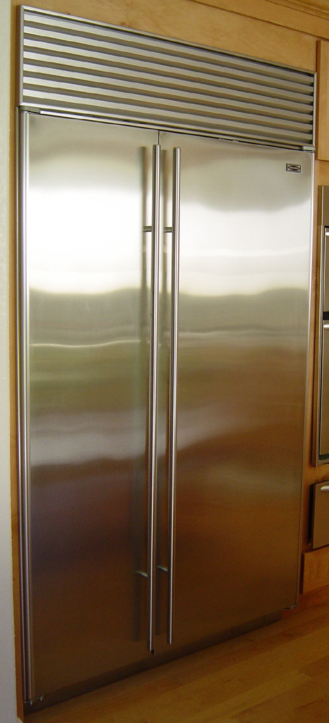 The exterior of a Subzero brand refrigerator. This unit is 36" wide 24" deep with a freezer unit on the left. The unit is designed to be integrated with kitchen cabinets and other appliances, hence ventilation must be provided at the top of the unit. The choices of exterior can be stainless steel or customizable to take a kitchen cabinet panel.